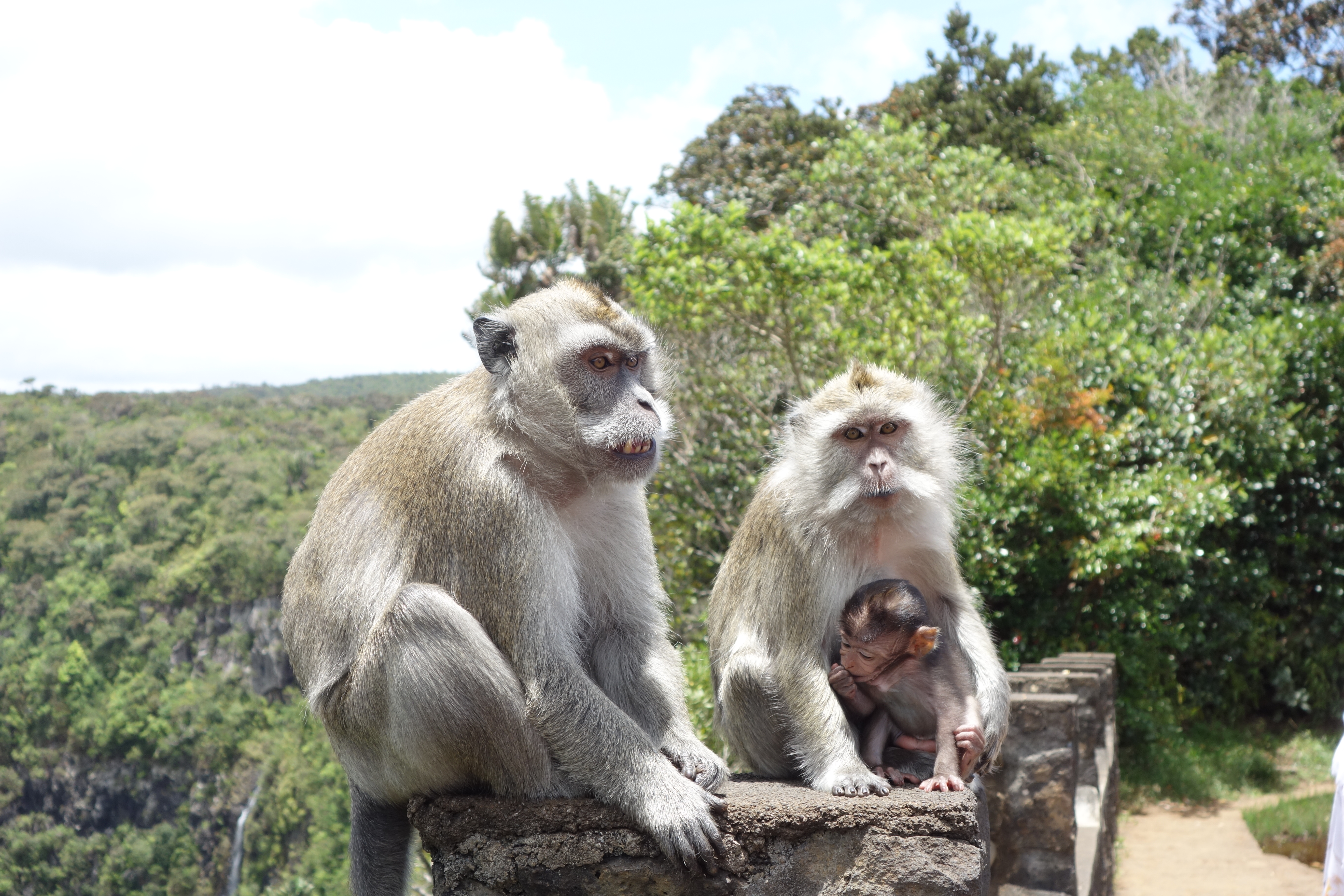 Crab-eating macaques in Black River Gorges, Mauritius.